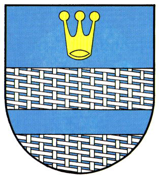 Coat of arms of the municipality of Prinzhöfte